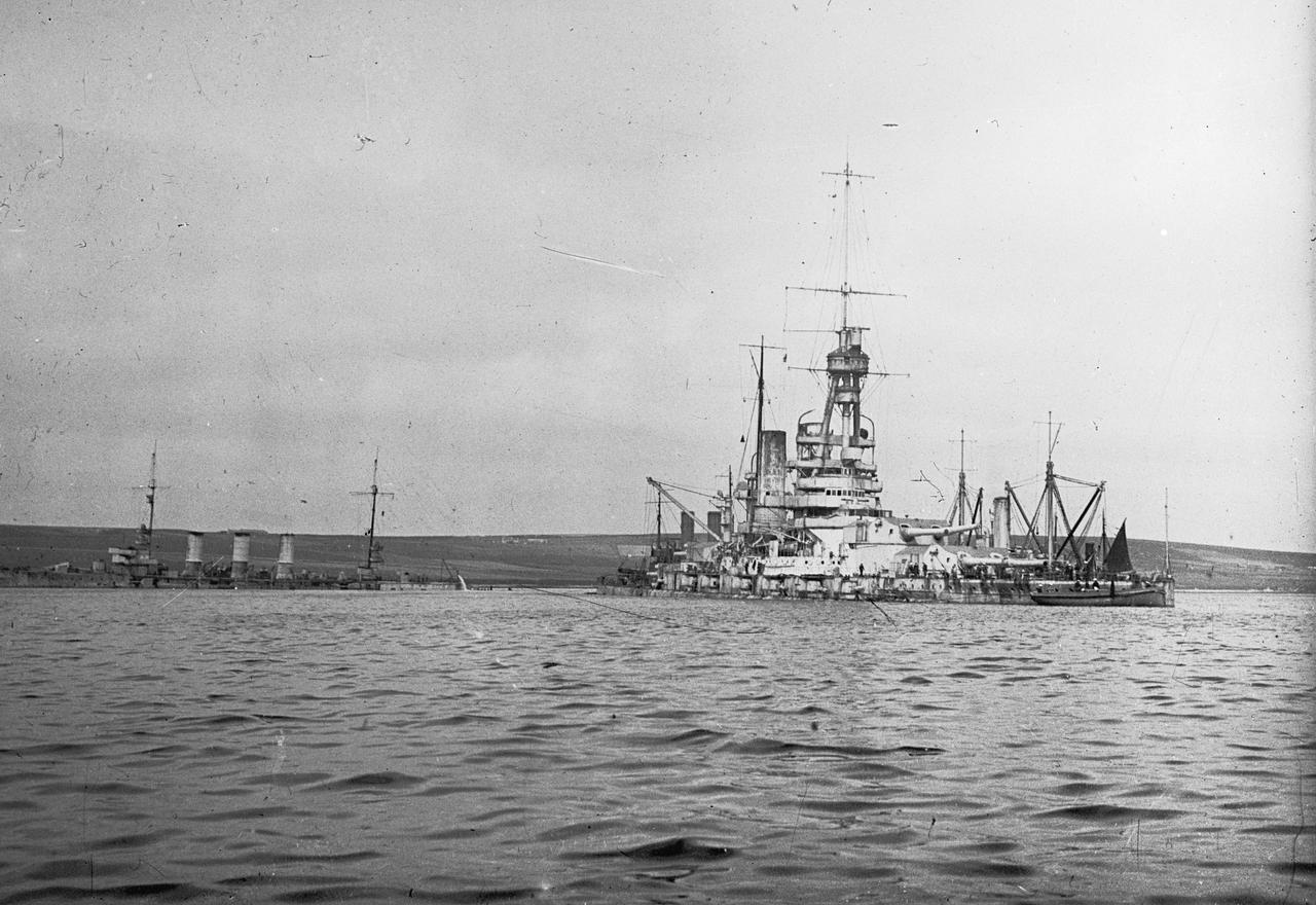 Scuttling of the German Fleet at Scapa Flow: Salvage work in progress on the German battleship BADEN at Scapa Flow. The cruiser FRANKFURT is also in view.